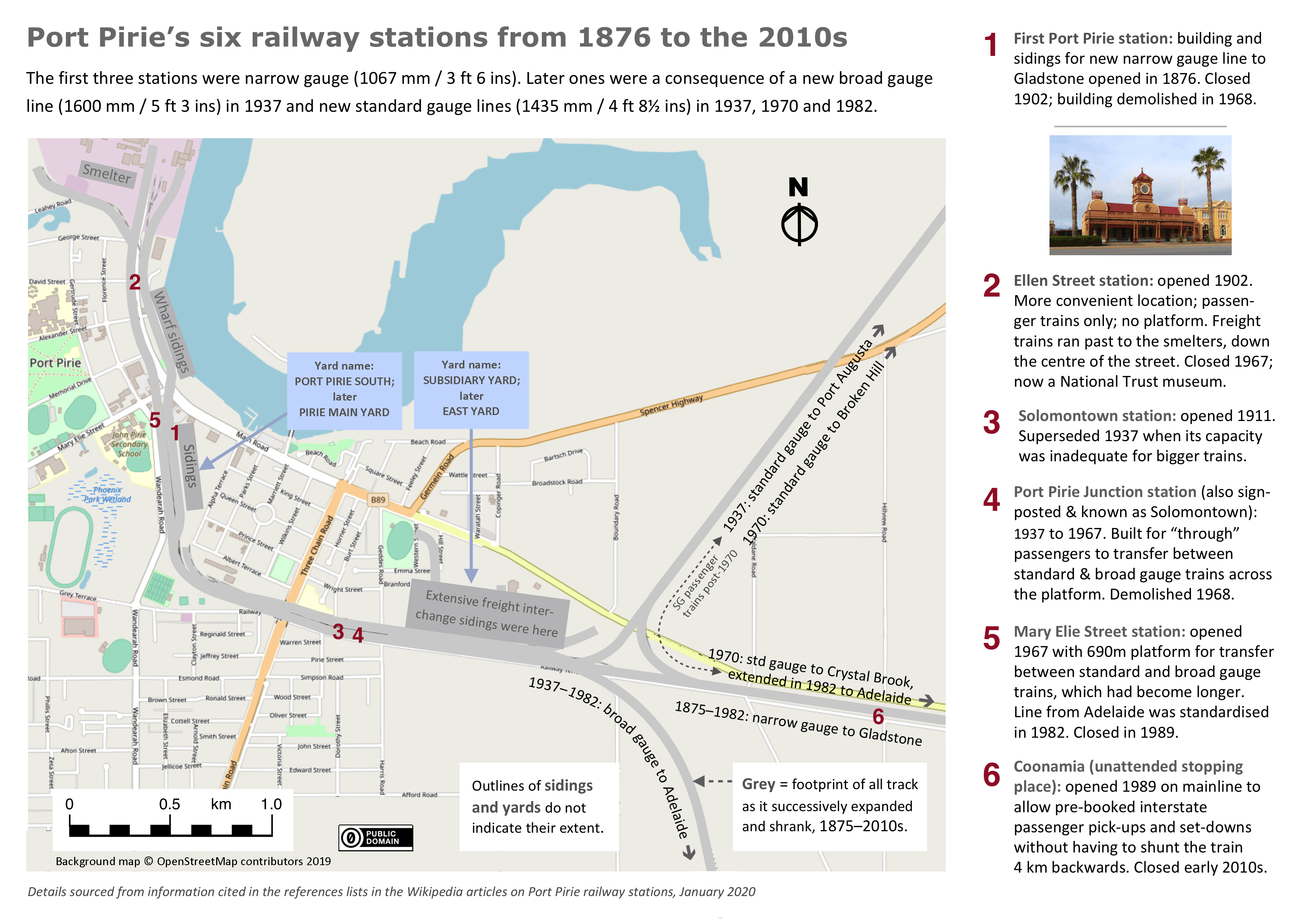 Map of Port Pirie, South Australia, with railway routes and stations from 1876 to the 2010s